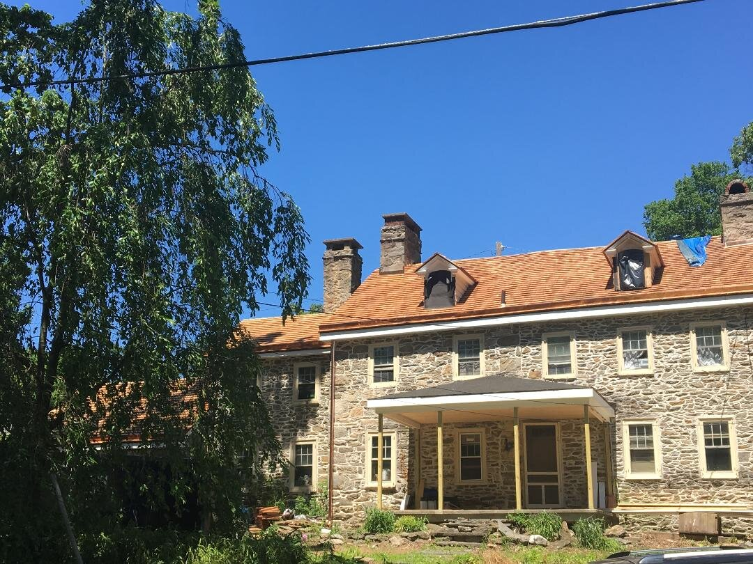 Formerly The Leedom-Dickinson Mansion. Now in restoration.